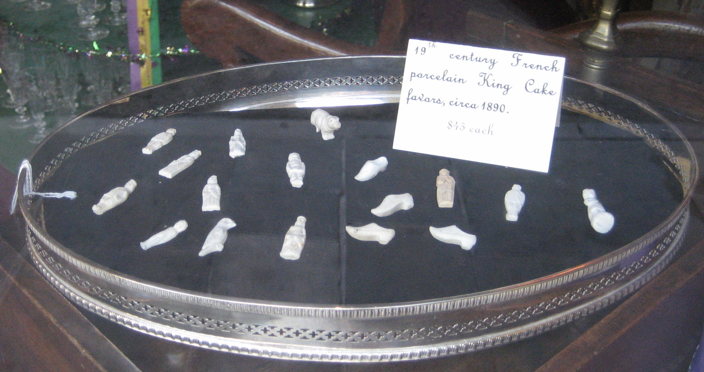 19th century king cake trinkets on display in shop window, New Orleans, Louisiana